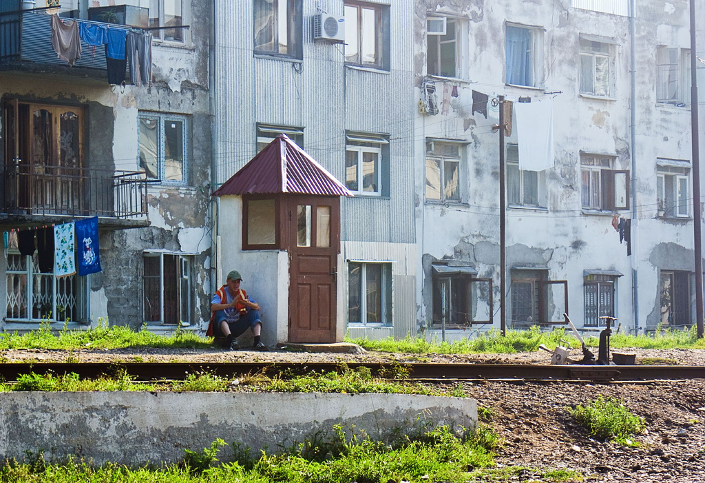 Switchman